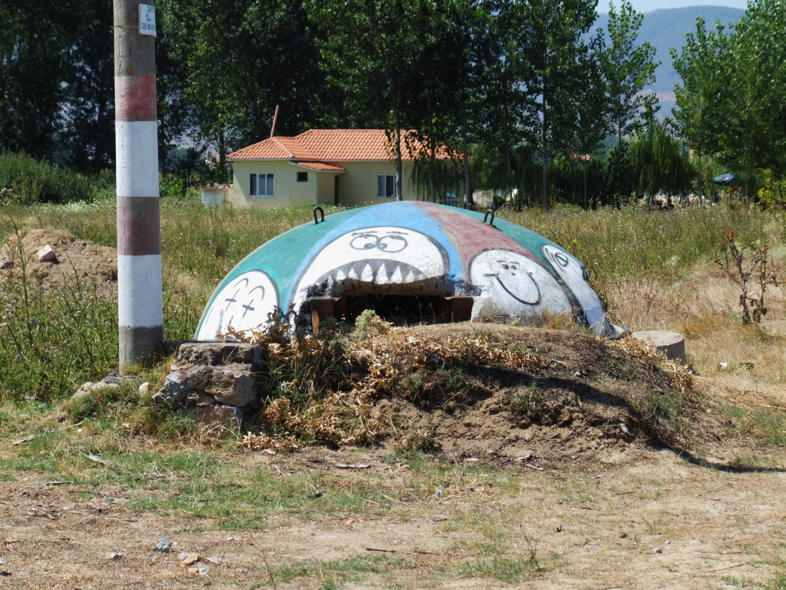 Bunker in Pogradec, Albania